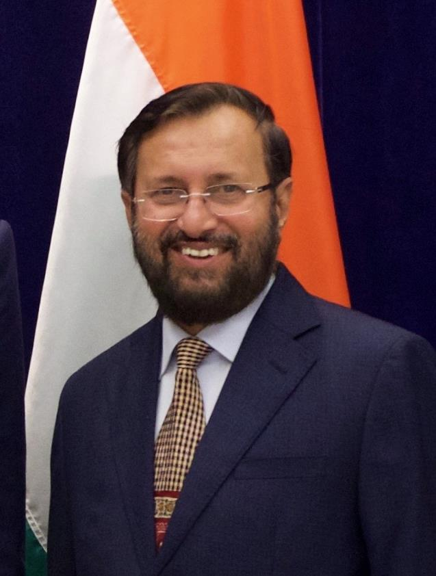 Prakash Javadekar